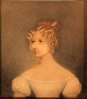 Portrait of Augusta Ludlow Shakespeare, who married in 1829 John Low, East India company officer.